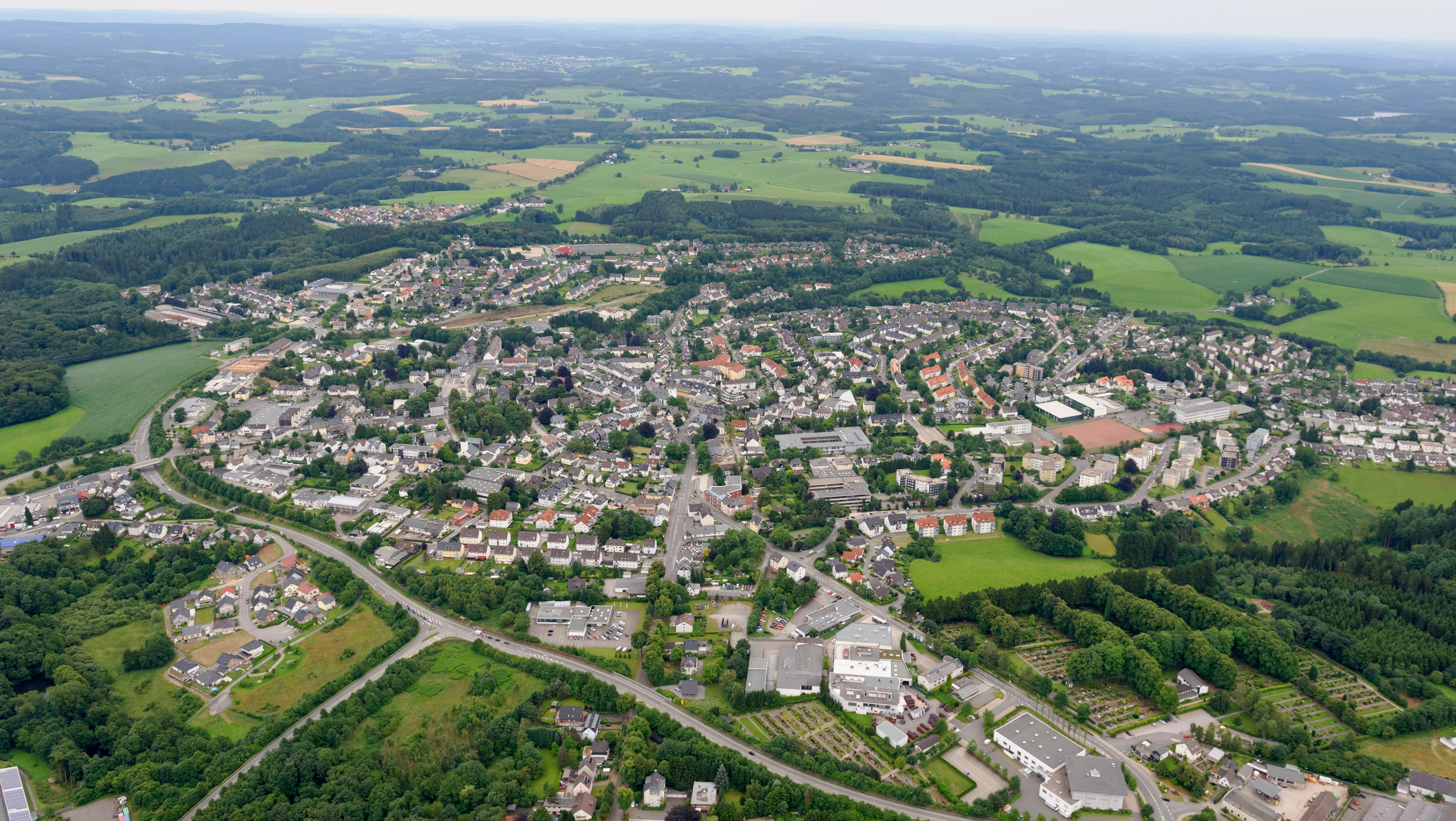 The making of this document was supported by the Community-Budget of Wikimedia Germany. Kernstadt von Halver; Einmündung der Landesstraße 528 in die Bundesstraße 229